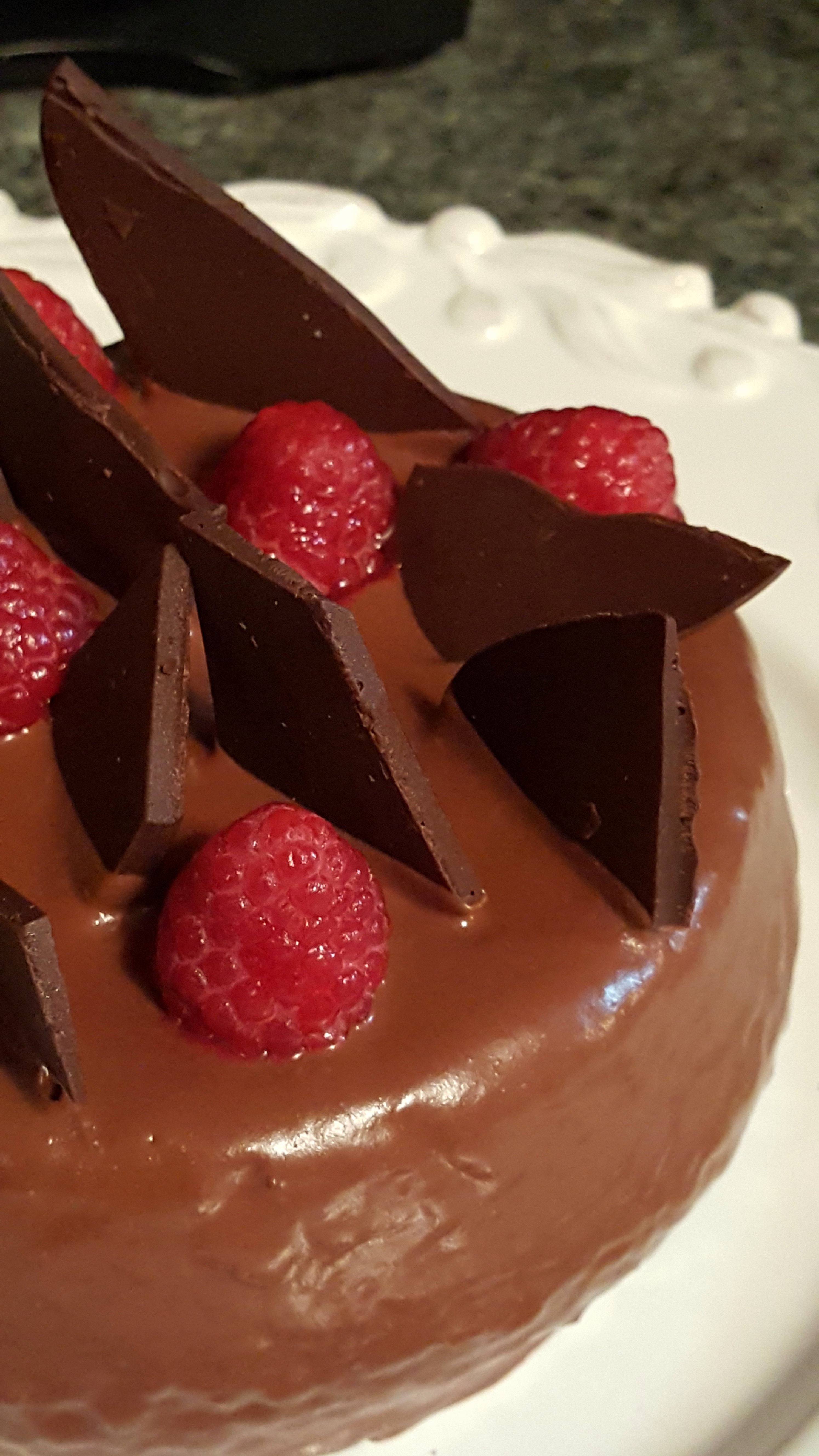 365photo 2017 edition Food